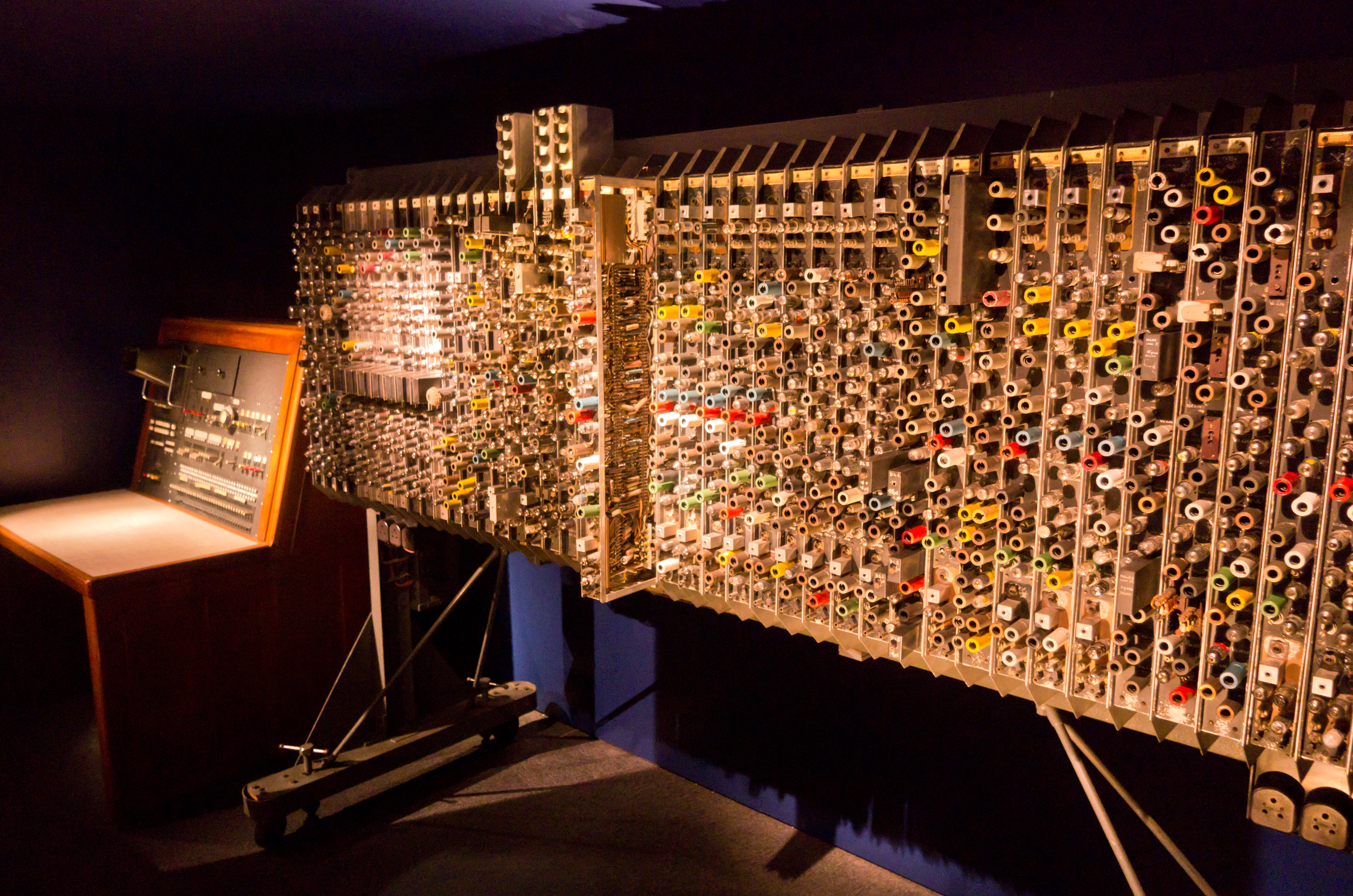 Pilot ACE (Science Museum, London)